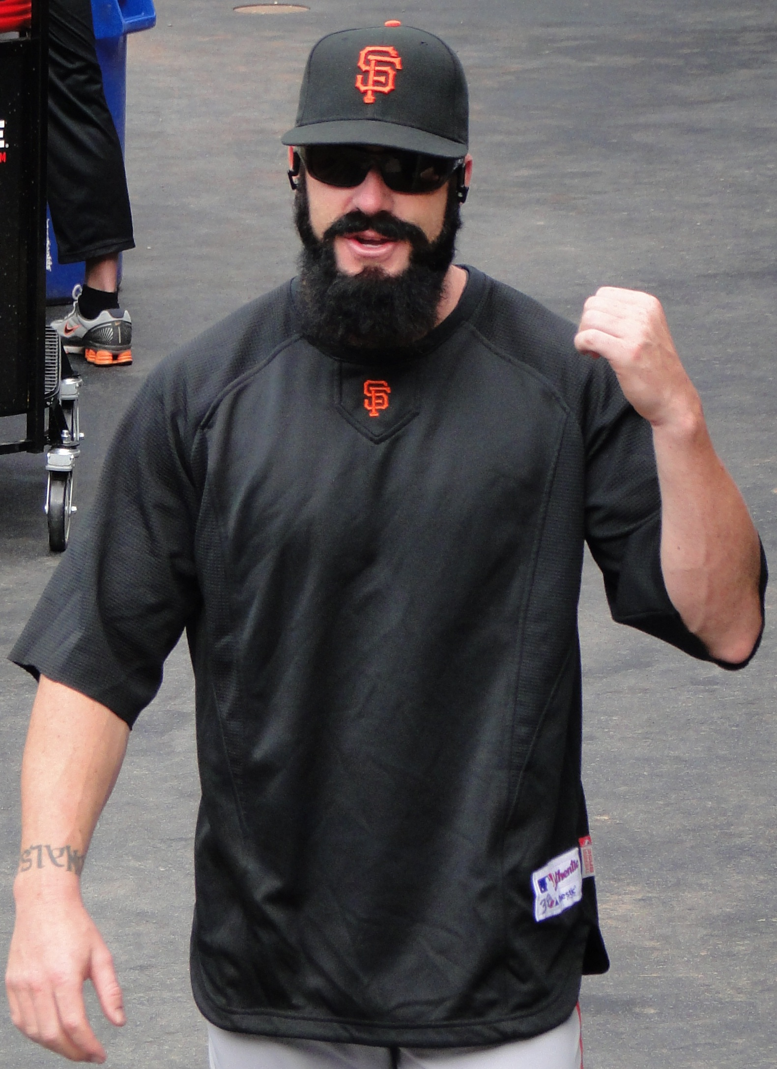 Brian Wilson in dugout at Dodger Stadium.